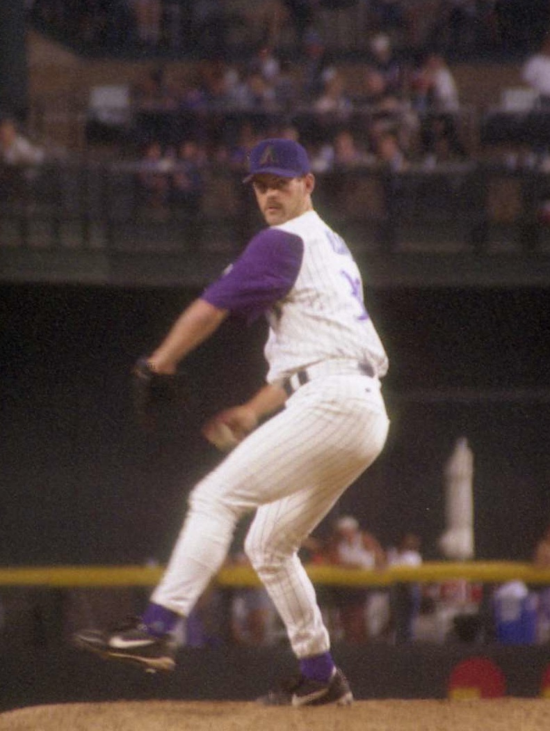 Gregg Olson pitching for the Arizona Diamondbacks on Sunday, June 6, 1999.